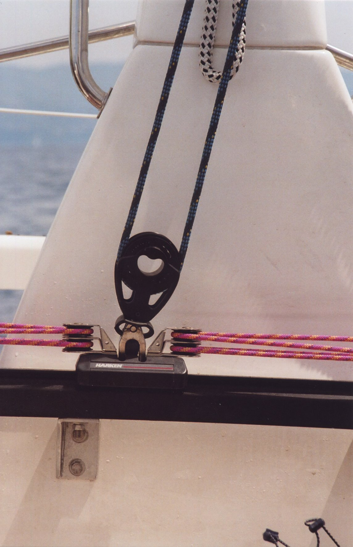 Traveller of a Bavaria 42 Match sailing yacht. The rose line is used for positioning the traveller, the blue line is the main sheet leading to the boom. The blue line runs through a "block", which is attached to a "car" that runs along the horizontal rail of the traveller.